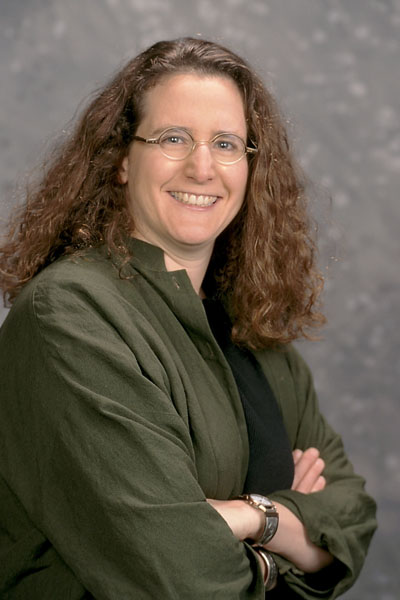 Amy Bruckman